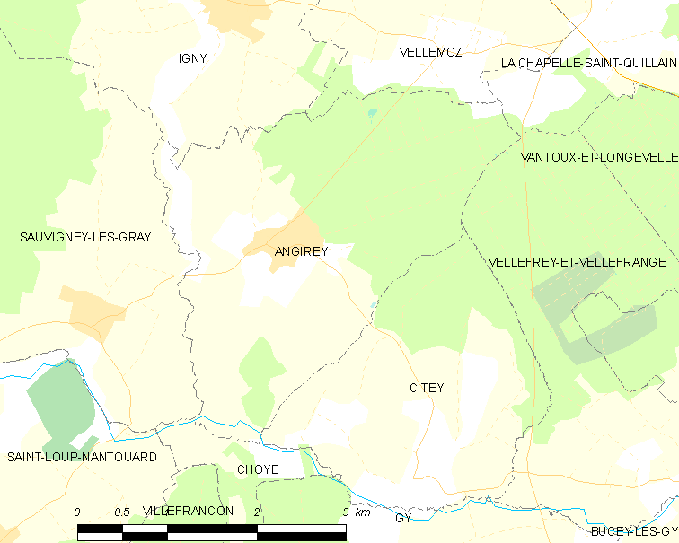 Map of French municipality